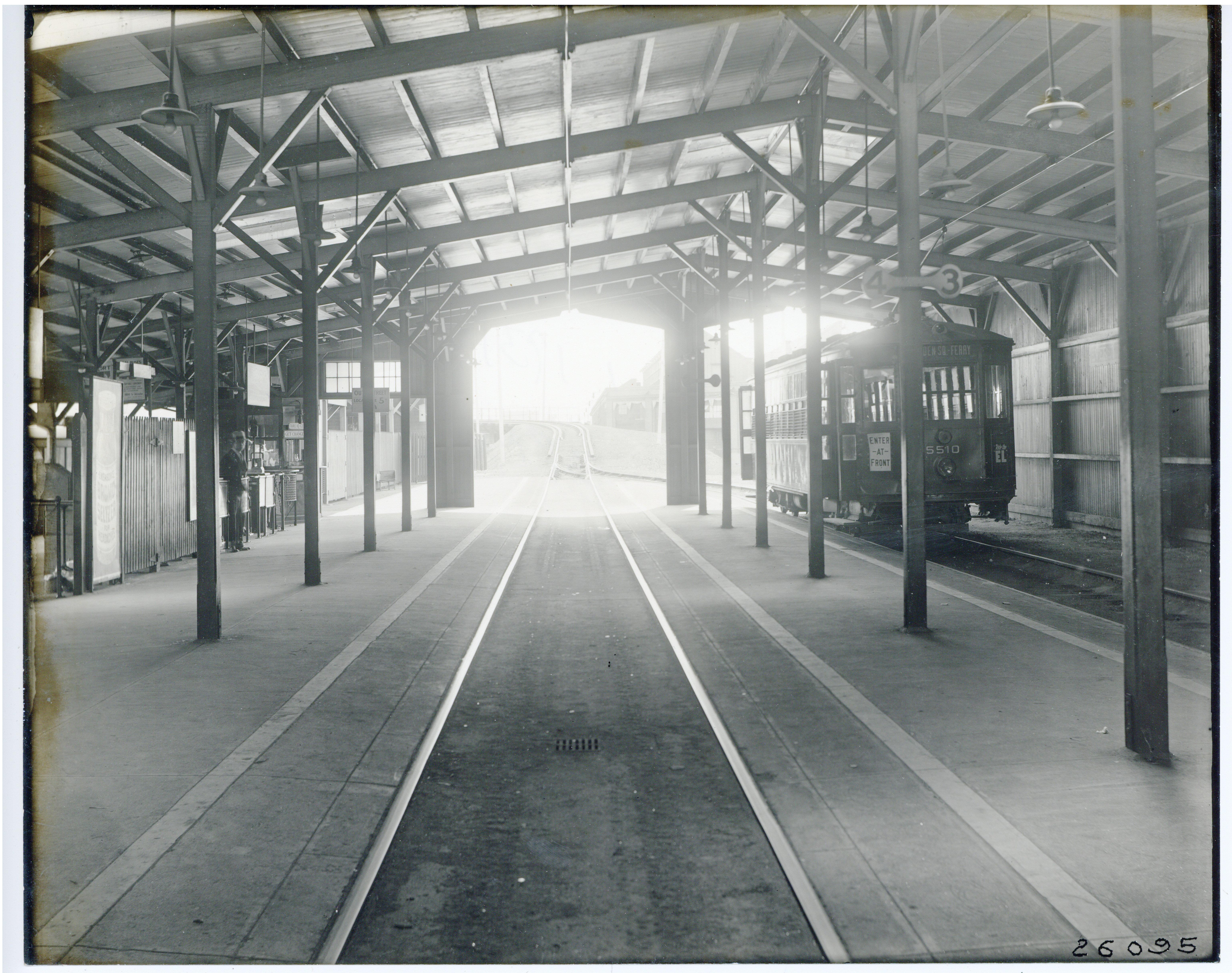 A 1922-built Type 5 car on the streetcar platforms adjacent to the inbound platform at Everett station. The elevated loop over the rapid transit tracks, used by streetcars to return to the boarding area adjacent to the outbound platform, is visible in the background.